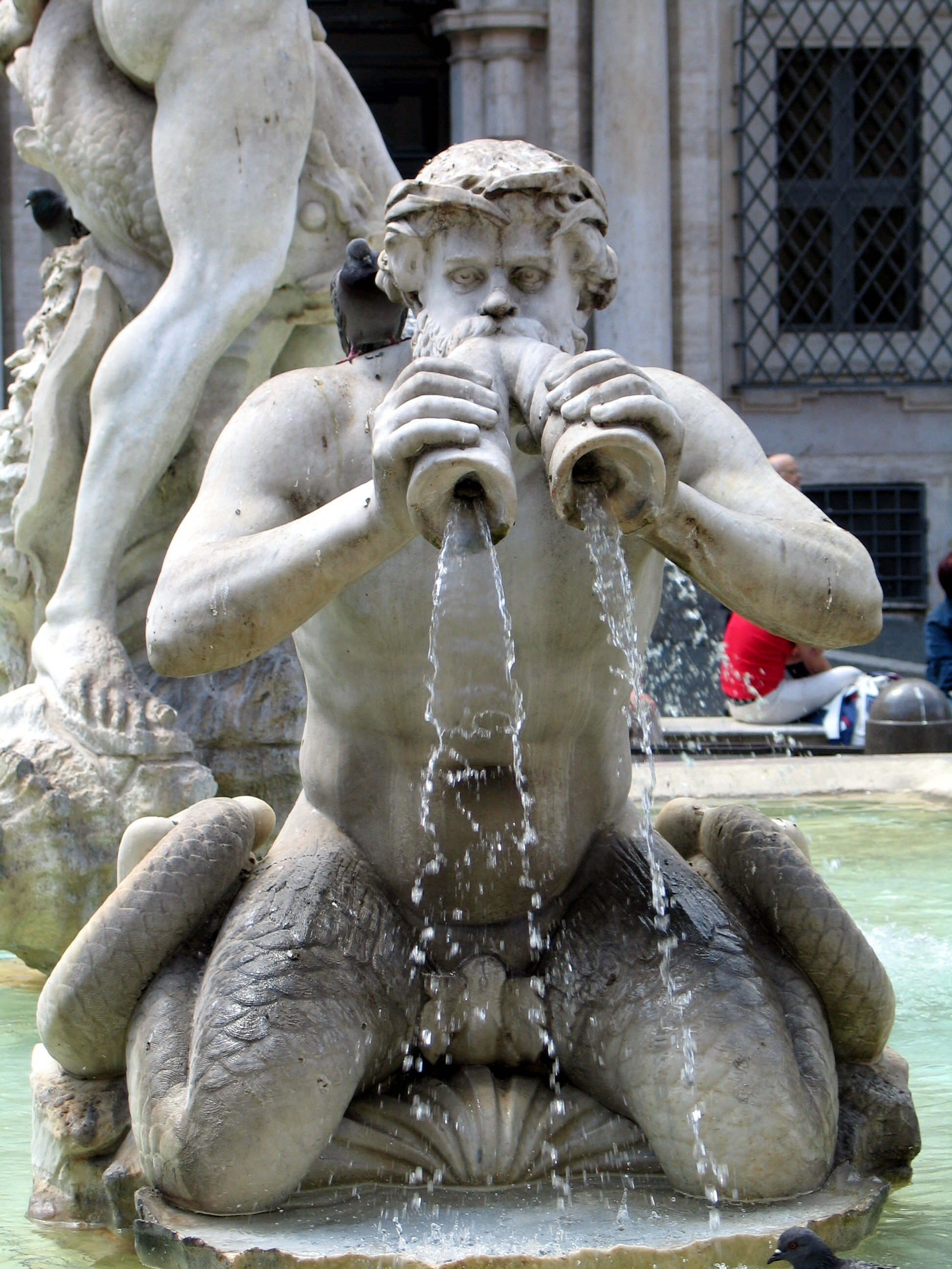 Giacomo della Porta created the fountain with sculpted tritons in 1574-1576, and Gian Lorenzo Bernini redesigned it 1654, adding the central statue "il Moro", an Ethiopian fighting a dolphin. The fountain is situated in the south of Piazza Navona in Rome, Italy.